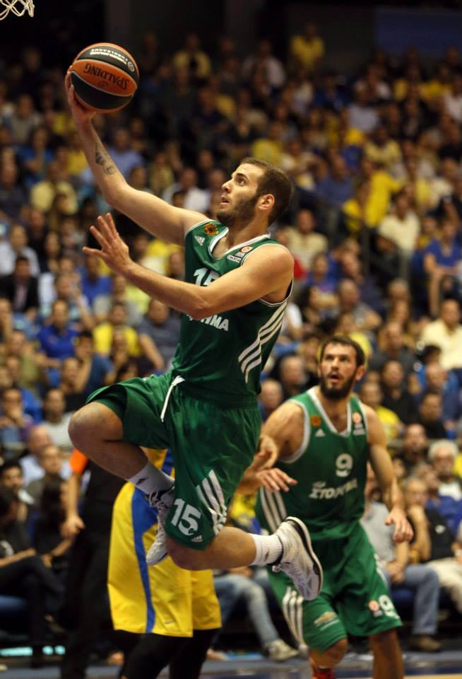 Nikos Pappas performing a lay-up against Macabi Tel Aviv.